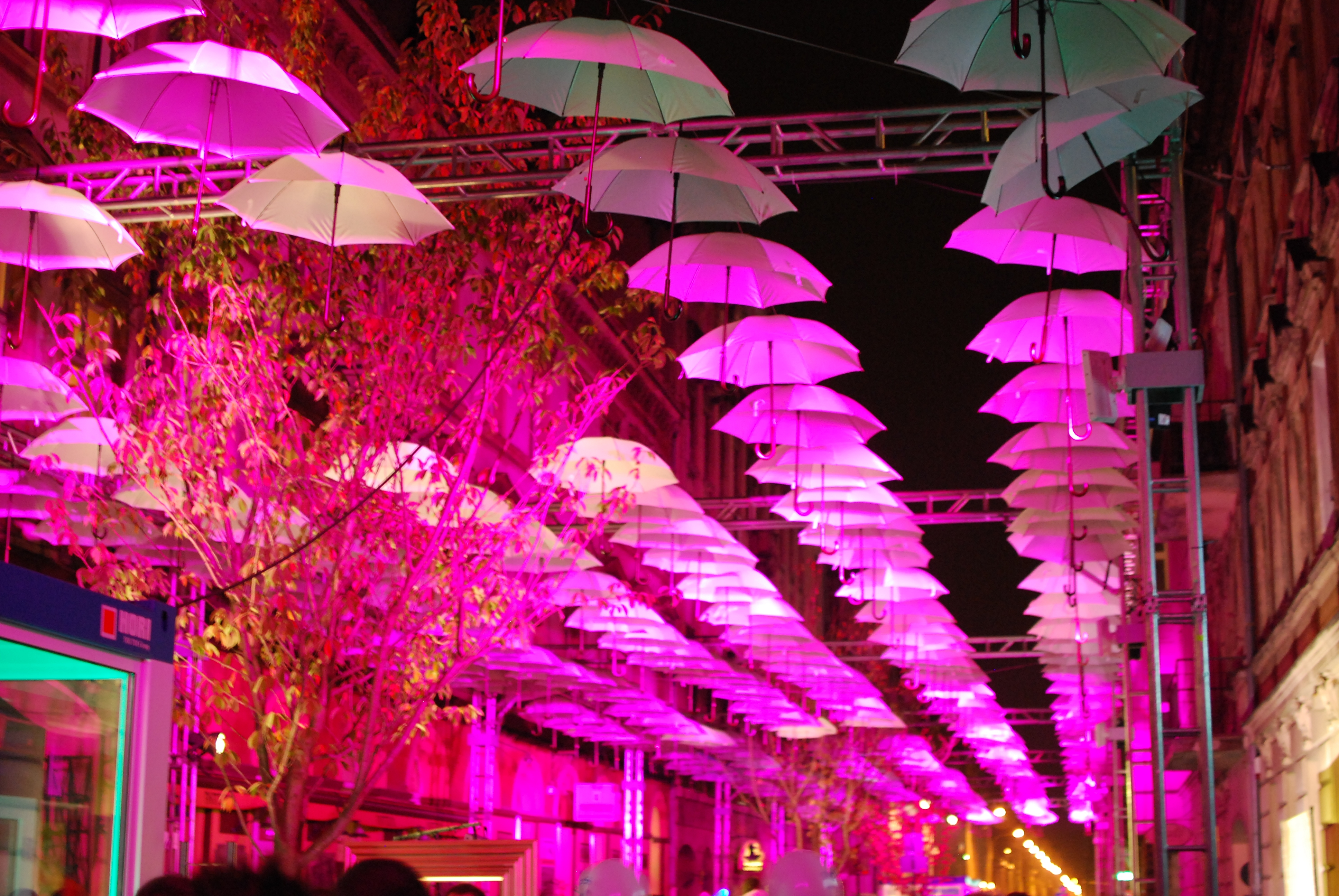 Light Move Festival Łódź 2014